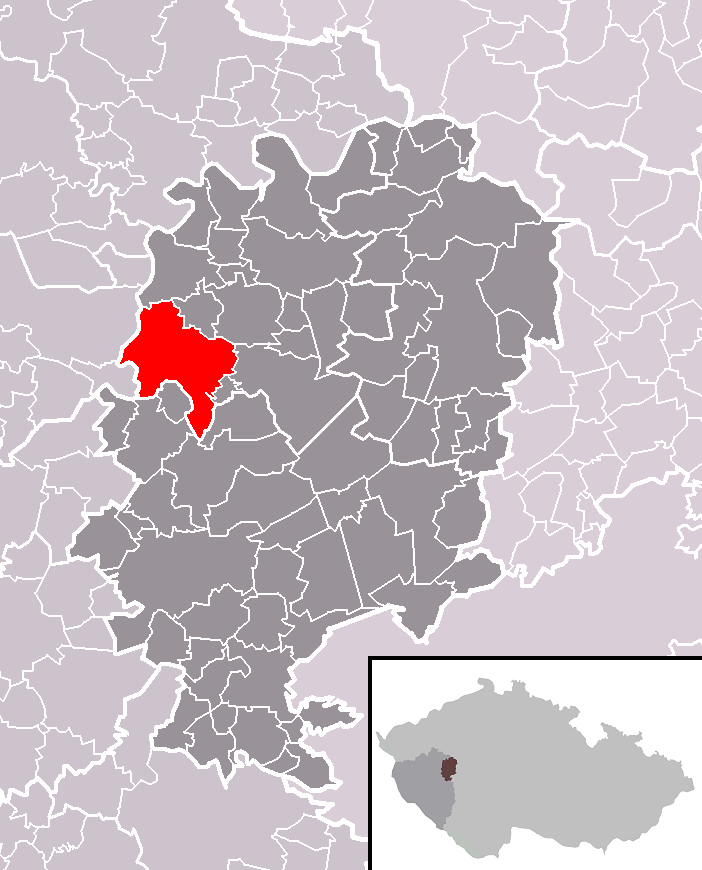 Location of Břasy municipality within Rokycany District and within identical administrative area of Rokycany as a Municipality with Extended Competence.